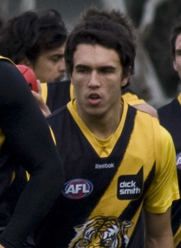 Brett Deledio, Shane Edwards and Chris Newman at Richmond training in August 2009